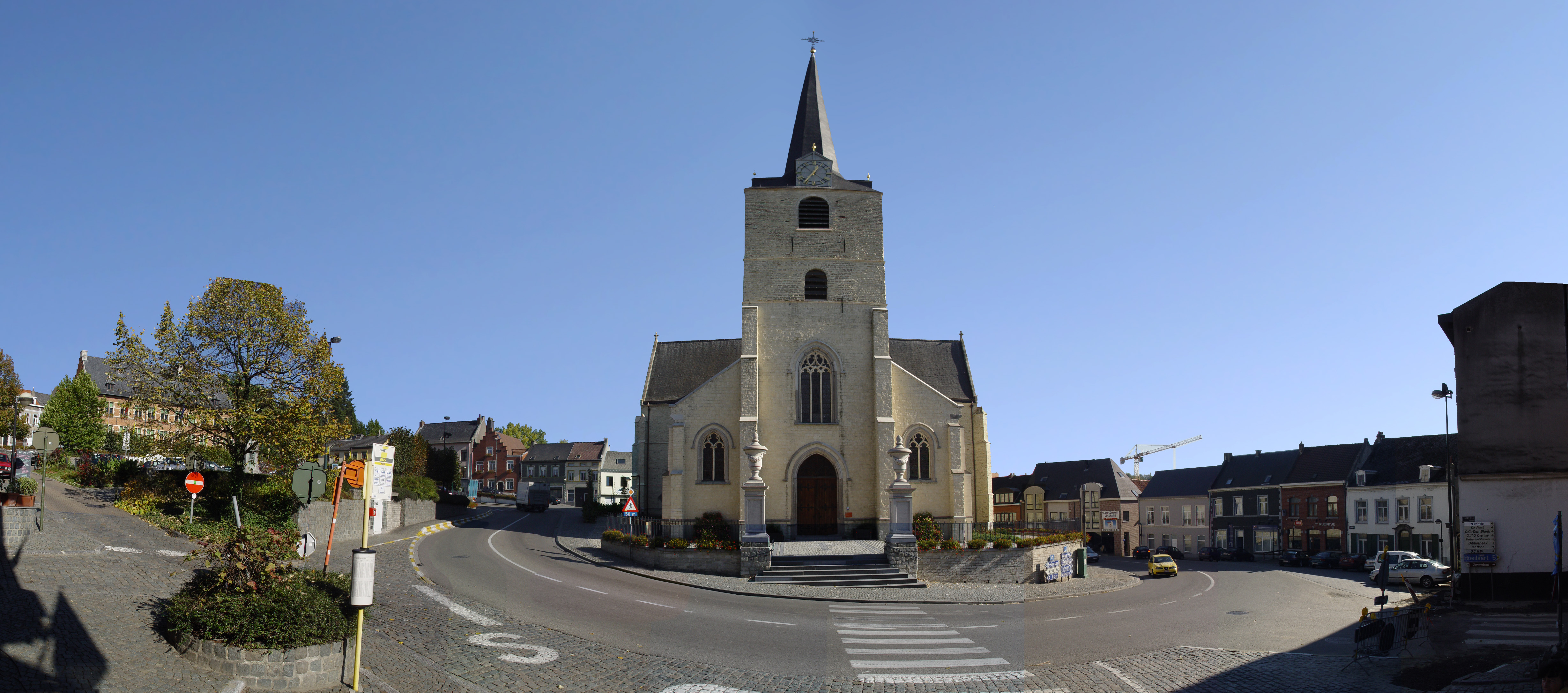 Church in Overijse, Belgium, looking direction East. - Google Maps - Google Earth